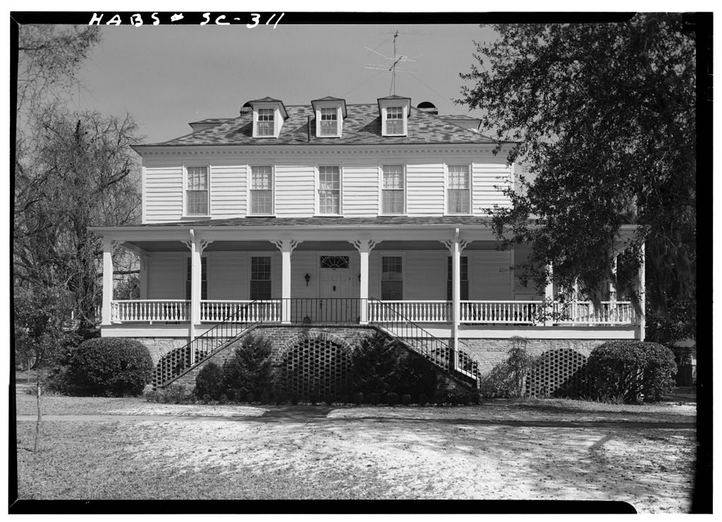 View of the south (front) elevation of the John S. Pyatt House, 630 Highmarket Street, Georgetown, Georgetown County, South Carolina. Historic American Buildings Survey, The Library of Congress, Washington, D. C.